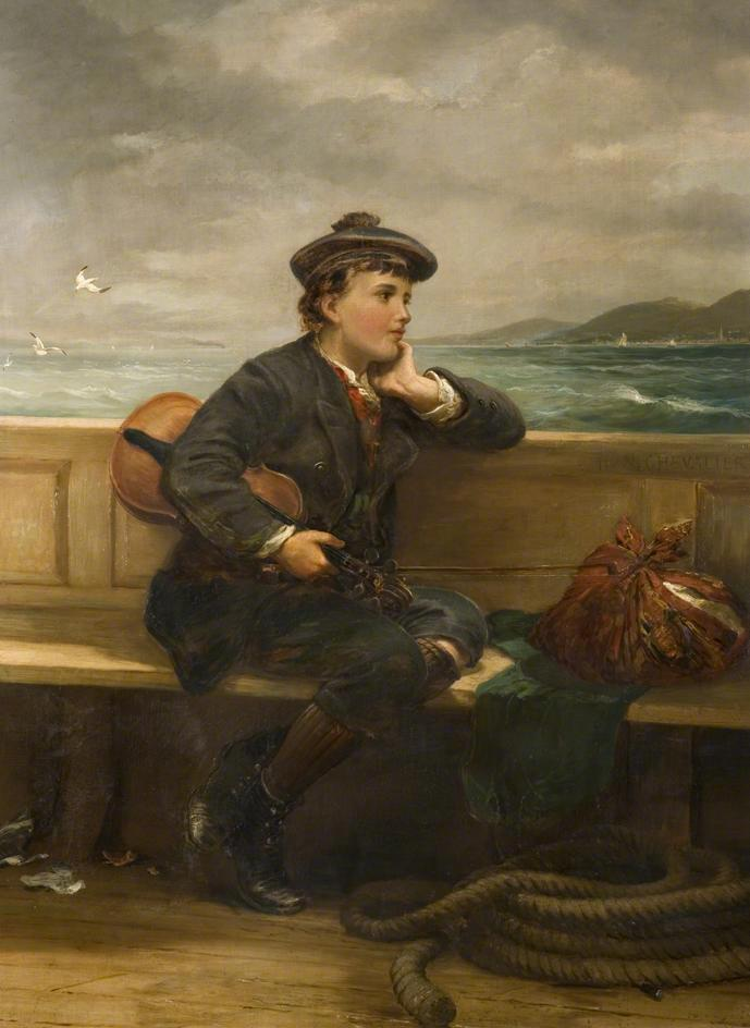 Signed: yes Description: In this work, a young boy looks wistfully over the edge of the boat in which he is depicted. His bundle is evidence of his leaving, his violin is tucked under his arm, and is perhaps obliquely referred to in the title 'Seeking Fortune'. He wears a Scottish cap and is possibly leaving Glasgow. In its addressing of the theme of emigration, the work has much in common with Ford Madox Brown's The Last of England, 1852-5. Exhibited for the first time in 1887, it has also been suggested that the painting depicts B.L Farjeon, a friend of the artist, who in 1854, at age 16, left England for Australia.